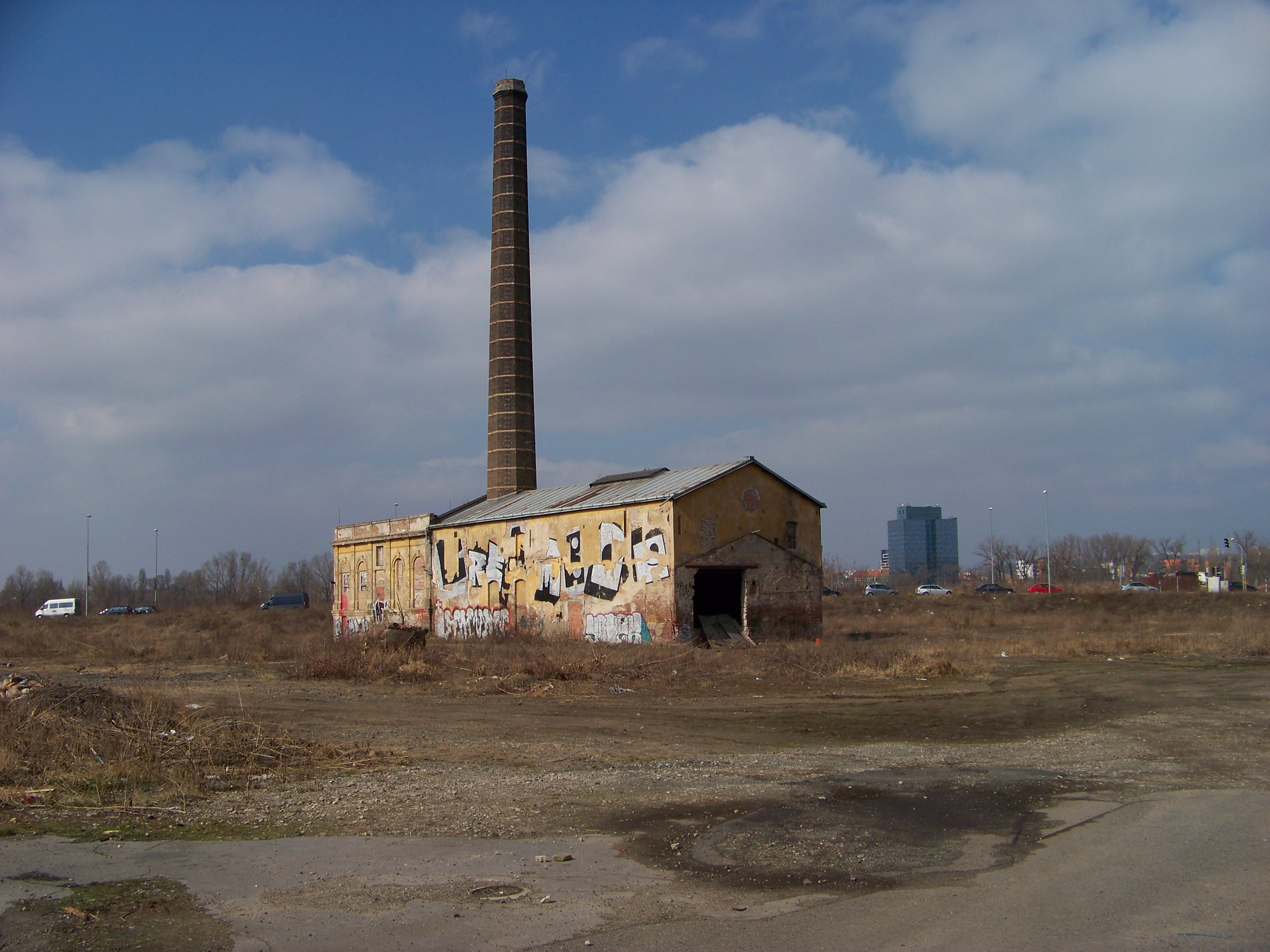 Prague-Karlín, the Czech Republic. A heating plant of Rustonka factory. - OpenStreetMap(Info)